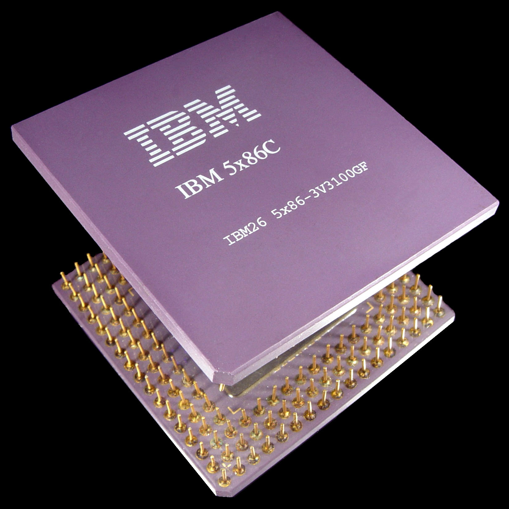 IBM 5x86 100 MHz CPU Bus speed 33 MHz or 50 MHz Clock multiplier 3 or 2 Manufacturing process 0.65 µm Transistor count 2000000 Data width 32 bit Floating Point Unit Integrated Level 1 cache size 16 KB unified instruction and data write-back cache